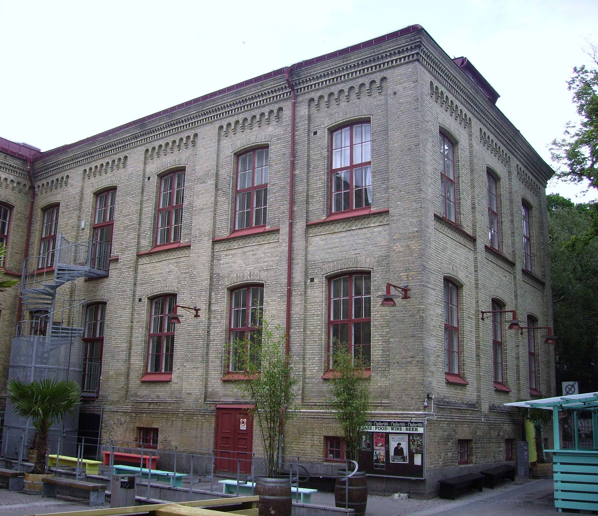 Picture of Nefertiti, a club in Gothenburg